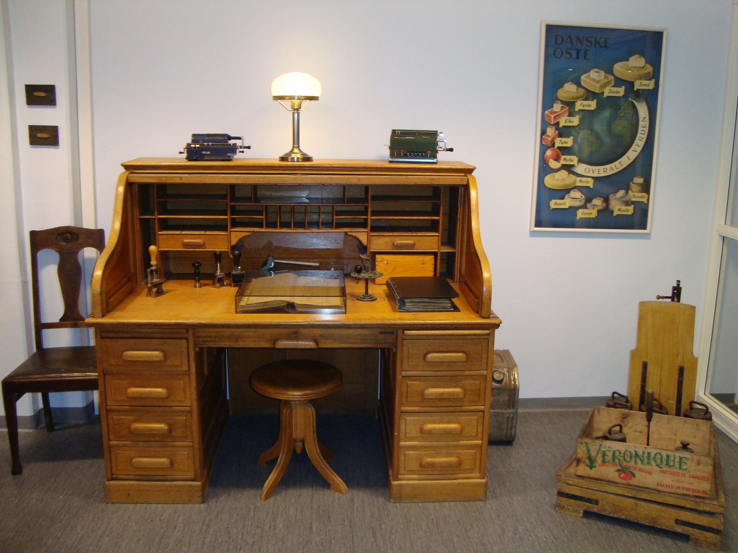 Preserved vintage office attributes from a grocery grossist. Dagab, Borlänge, Sweden.